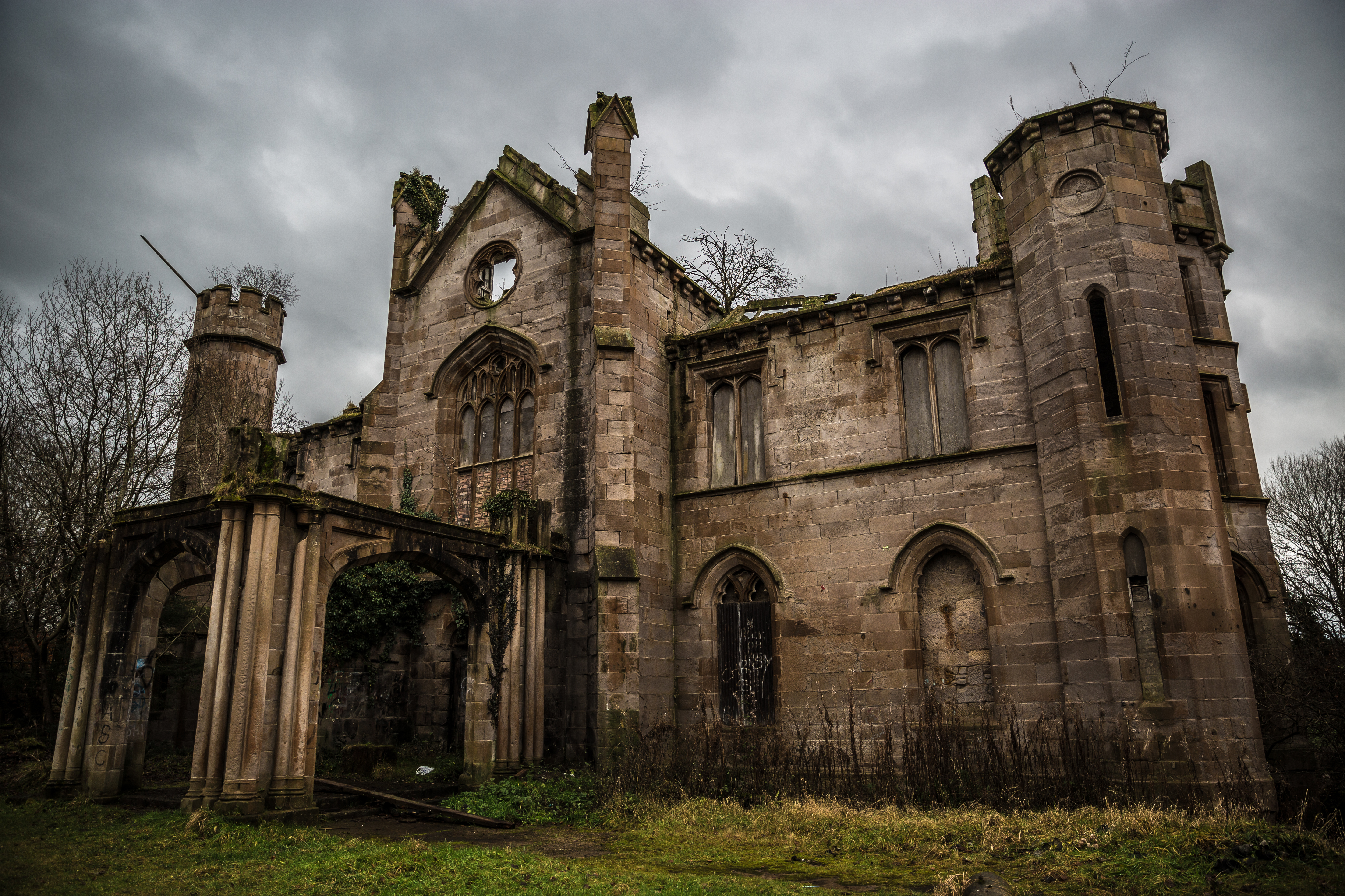 A side view of Cambusneathan Priory.